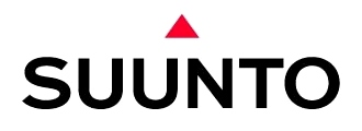 logo_suunto